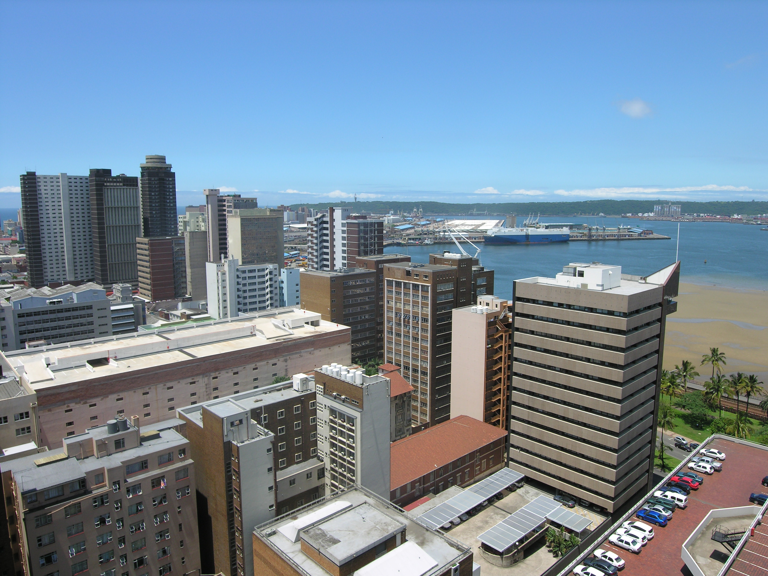 View of Durban harbor